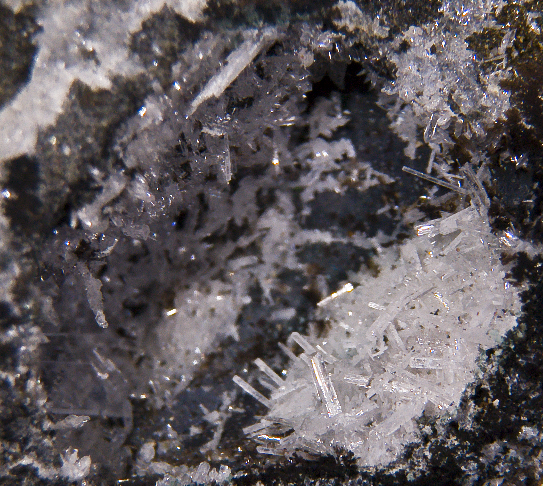 Laurionite - Thorikos Bay slag locality, Thorikos area, Lavrion District slag localities, Lavrion (Laurion; Laurium) District, Attikí (Attica; Attika) Prefecture, Greece - (view 1x1cm)